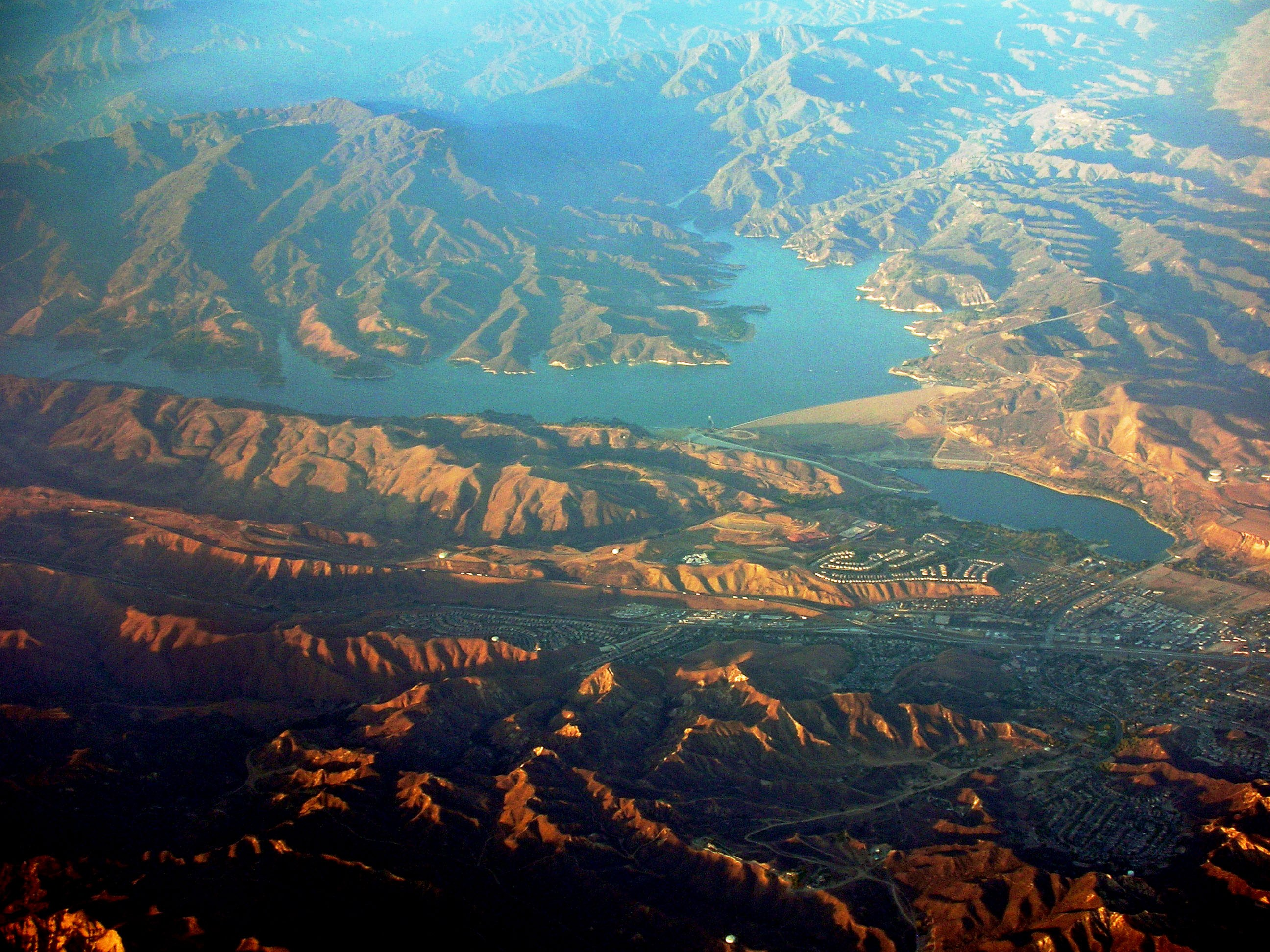 Castaic Lake, seen from the air at approximately 7 p.m., August 23, 2007.